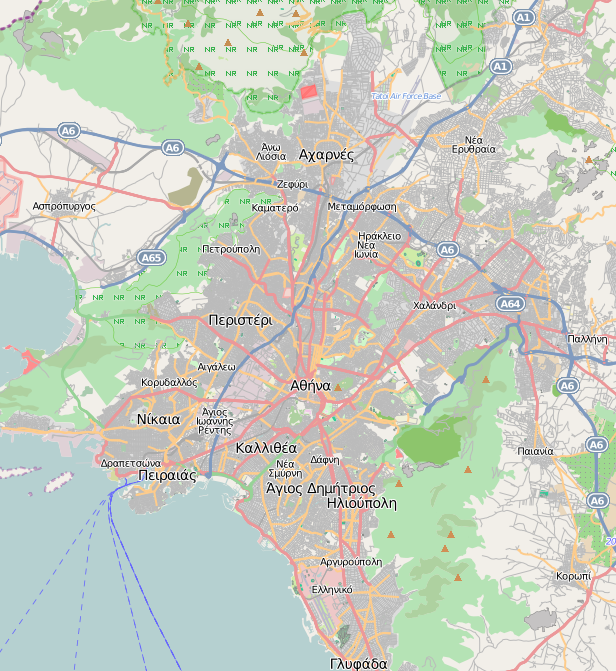 OpenStreetMap map of Athens, Greece, intended for use in geolocation templates. top = 38.151 bottom = 37.858 left = 23.556 right = 23.897